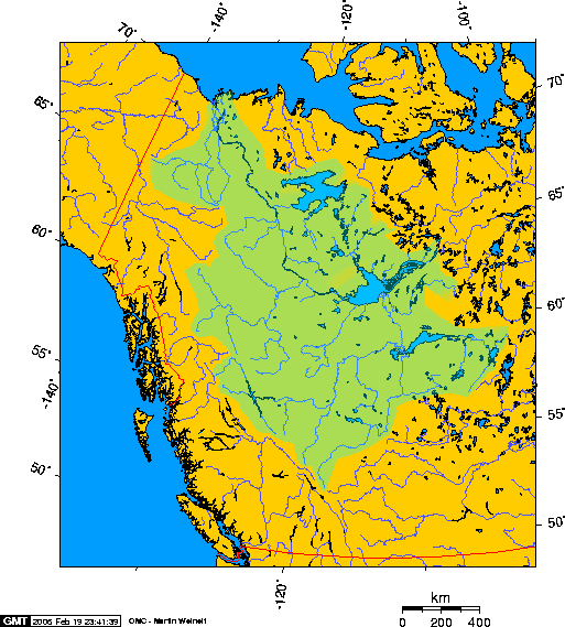 Approximate extent of the Mackenzie River watershed Longest river in Canada, the Mackenzie River.